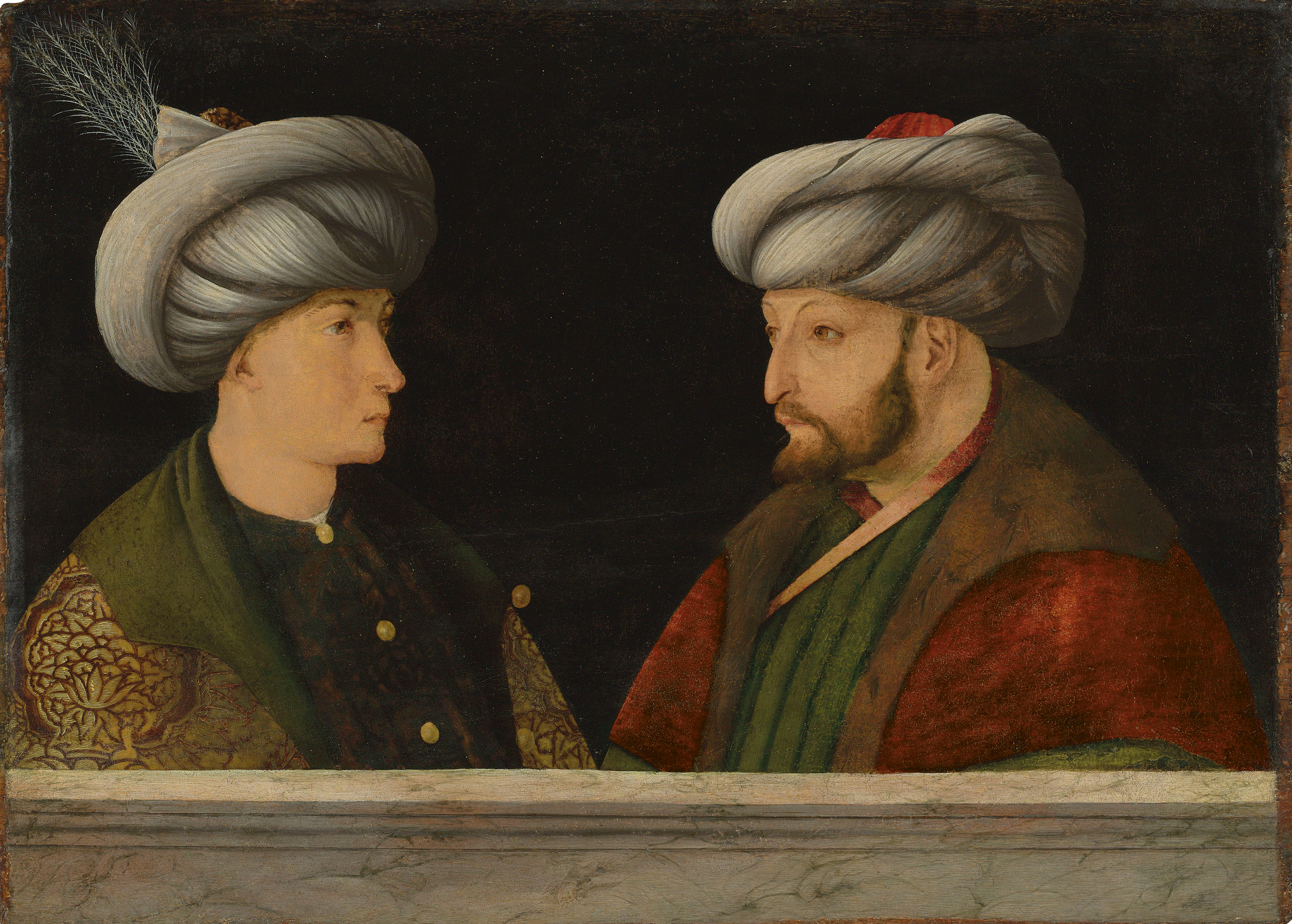 Portrait of Sultan Mehmed II with a young dignitary, oil on pine panel, 33 by 45.7 cm.; 13 by 18 in. Estimate 300,000 — 500,000 GBP. Photo Sotheby's. Provenance: Christian von Mechel (1737–1817), Basel; Acquired from the above by a forebear of the present owner in 1807; Thence by family descent to the present owner. This panel is one of only three surviving contemporary or near-contemporary oil paintings depicting the great Sultan Mehmed II Fatih (1430–81), and the last to remain in private hands. It is the only known painting to depict the Sultan with another sitter. It has remained in the collection of the descendants of the family who first bought it back in the early nineteenth century, and appears here on the open market almost certainly for the first time in its history.